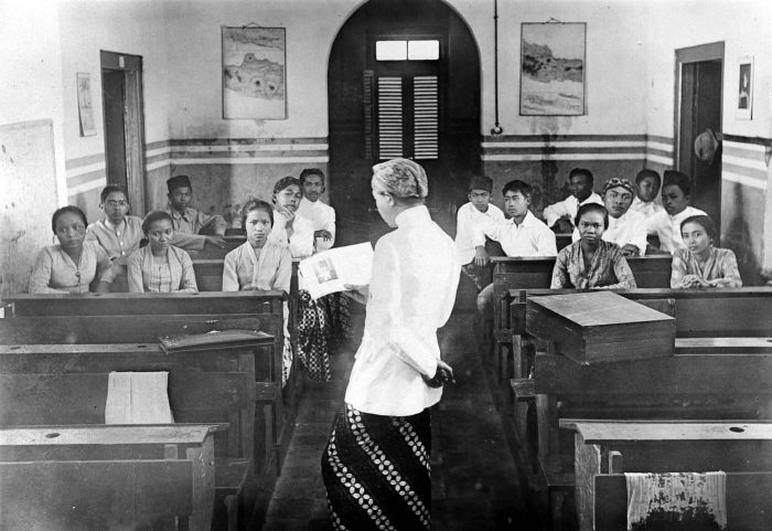 Mr. Soerjoadipoetro holds a lecture on Tagore's school for pupil-teachers from the National Education Institute "Taman Siswa" in Bandung, Java